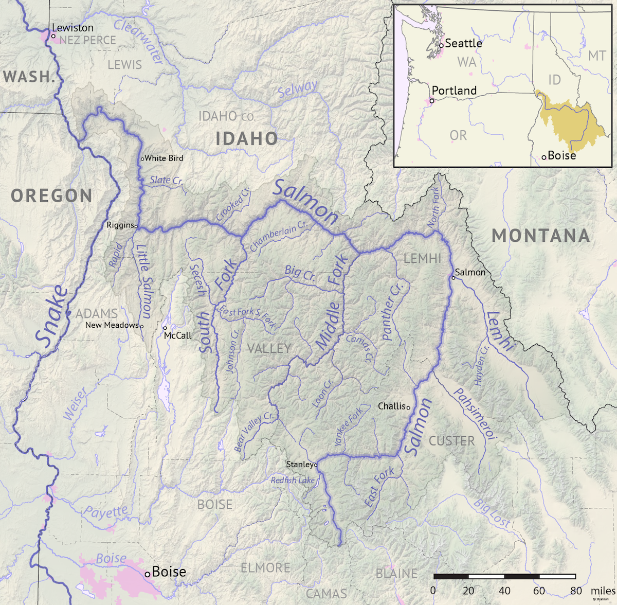 Map of the Salmon River drainage basin in Idaho. Created using USGS National Map and NASA SRTM data.